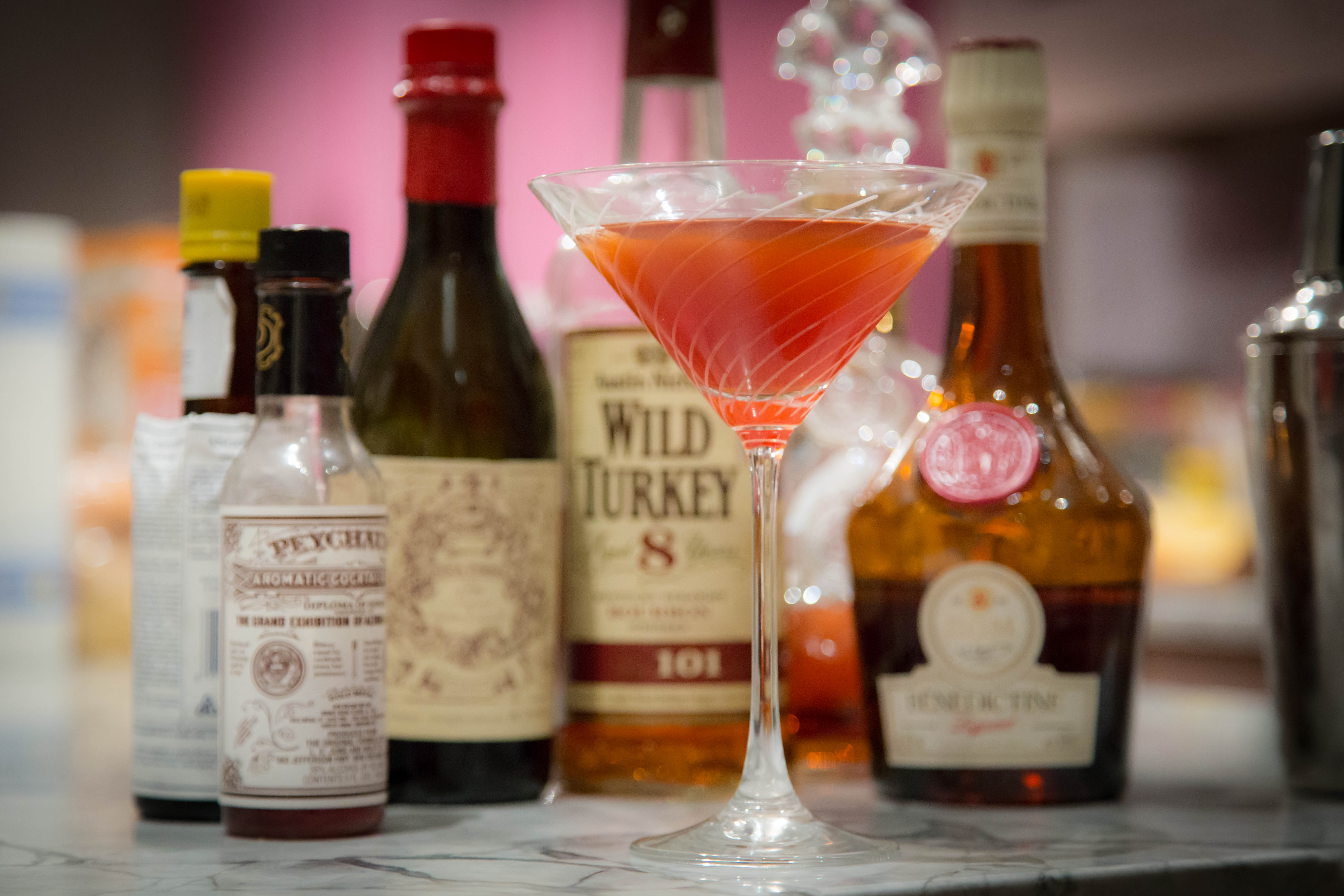 Vieux Carre Cocktail